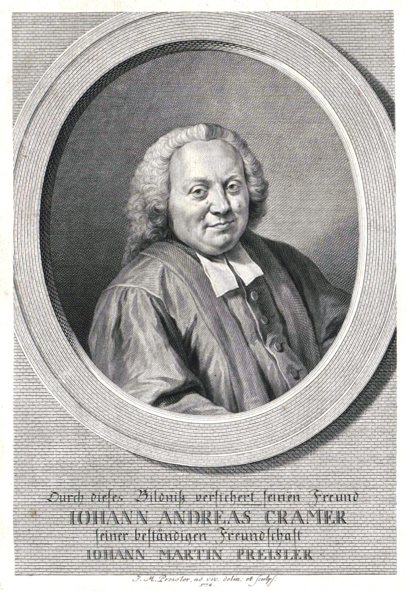 Depicted person: Johann Andreas Cramer